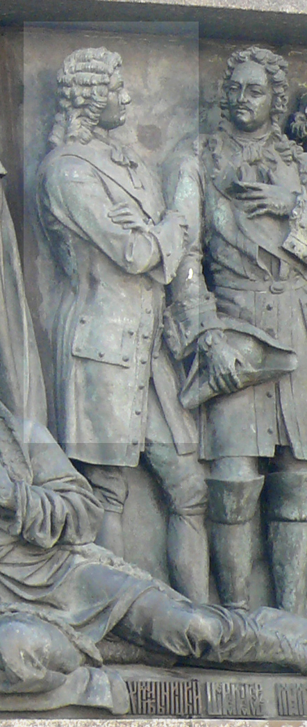 Boris Sheremetev on the Monument "Millennuim of Russia" in Veliky Novgorod